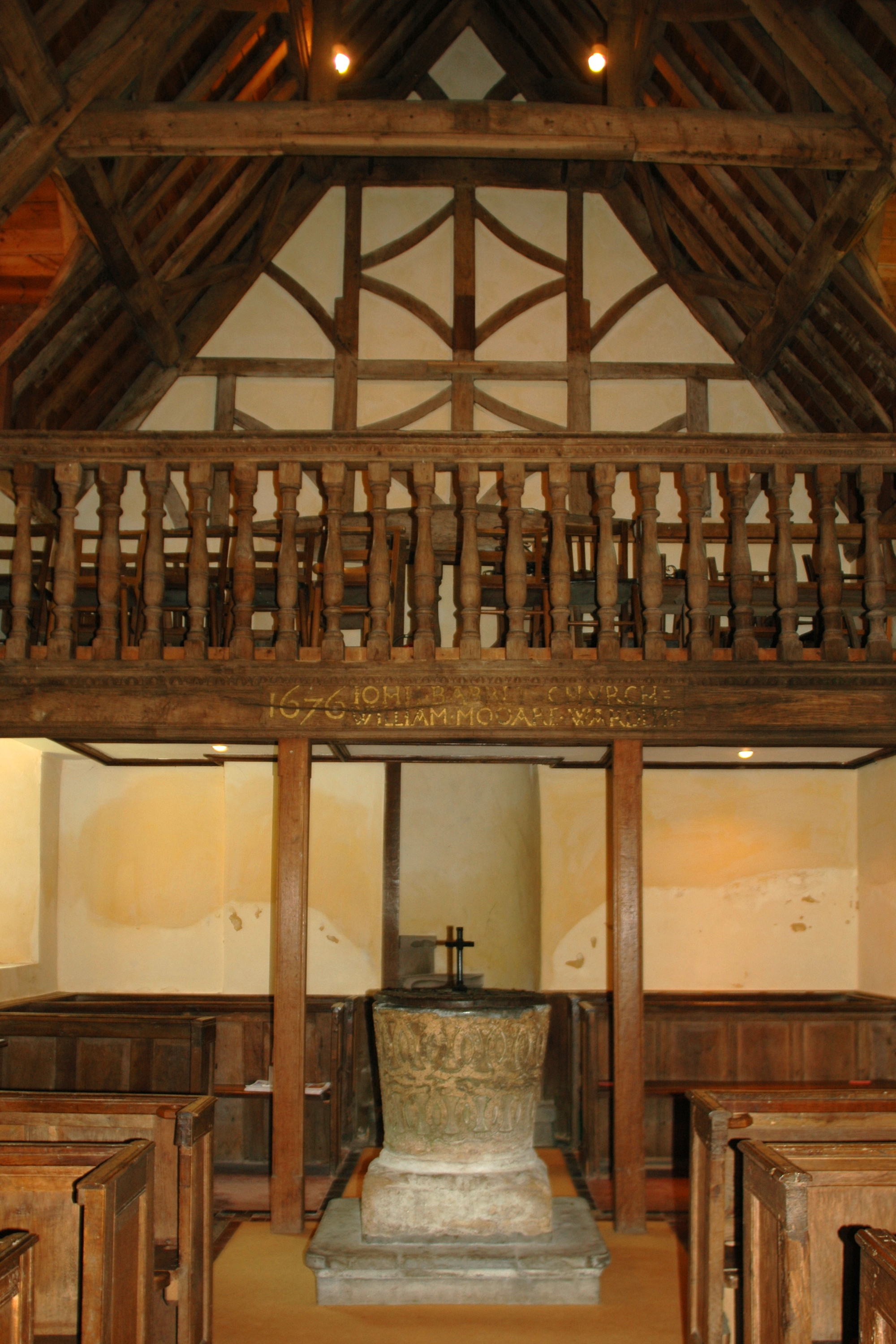 Church of England parish church of St Helen, Berrick Salome, Oxfordshire: part of west end, including font and part of west gallery